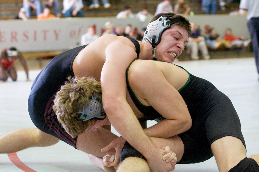 Two college students wrestling (collegiate, scholastic, or folkstyle) in the United States.